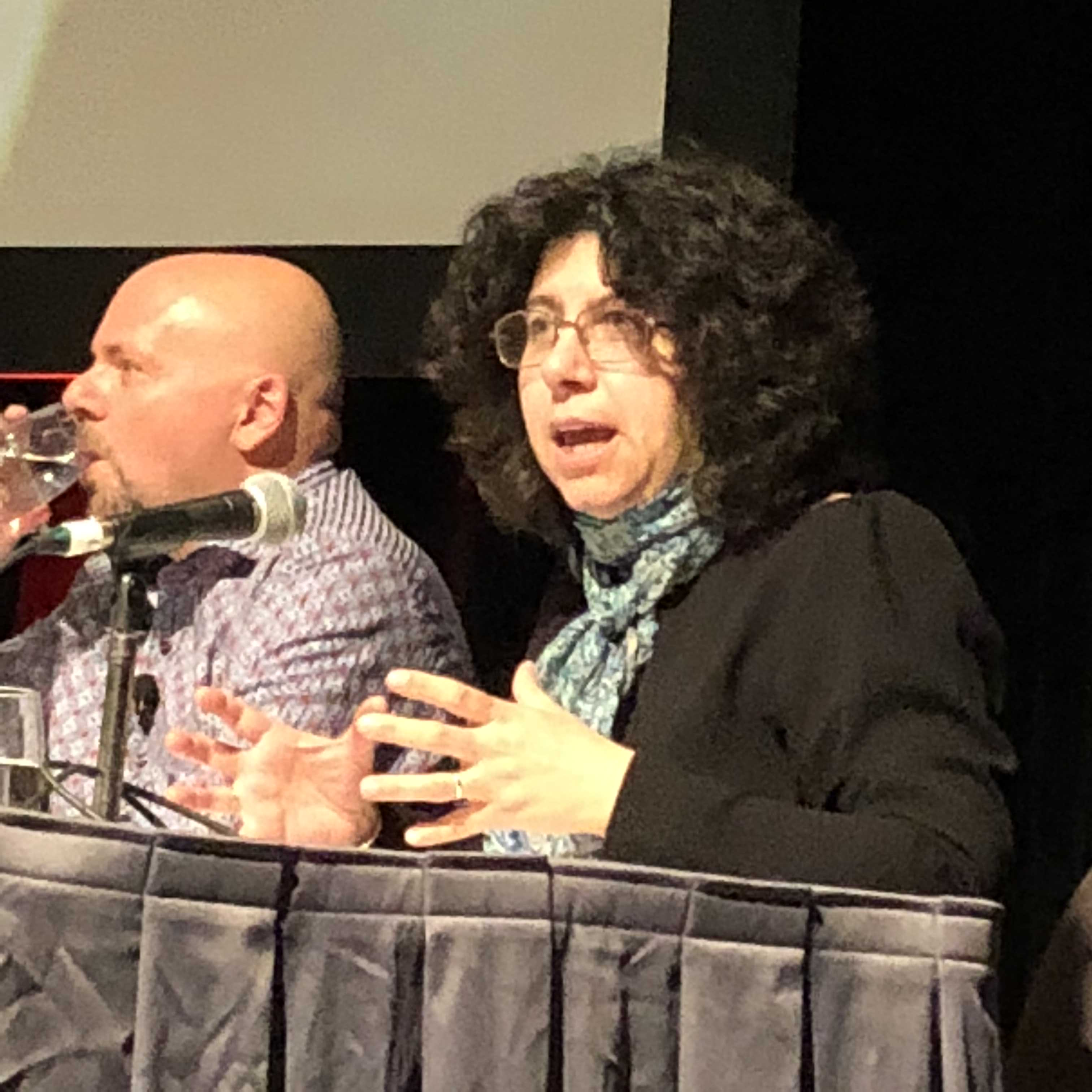 Computer scientist Donna Precup (right) with Ian Kerr, at the 2018 Trottier Public Science Symposium.